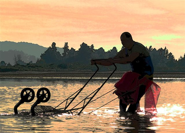 An employee of seafood company Southern Clams Ltd harvesting clams, known locally as 'cockles', from Blueskin Bay, Dunedin, New Zealand.